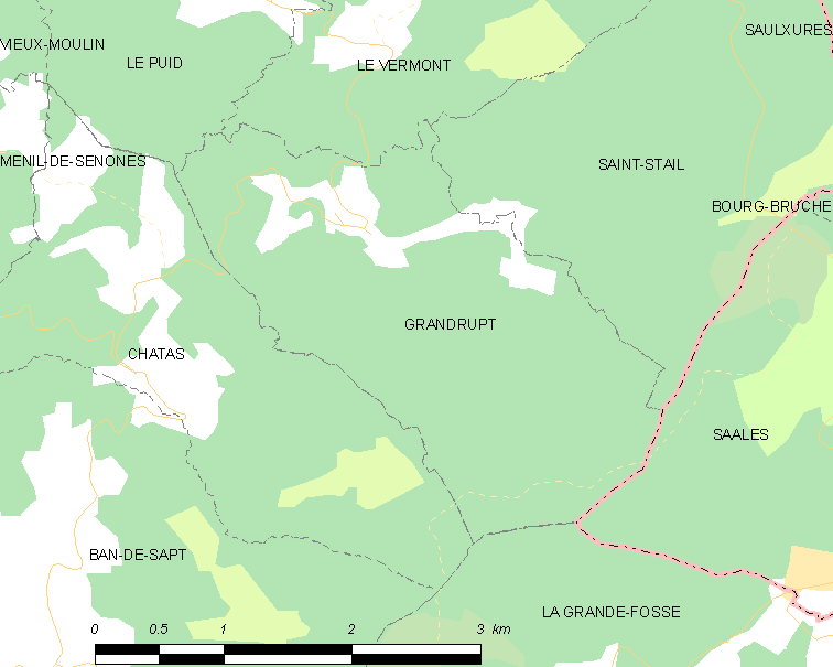 Map of French municipality Grandrupt